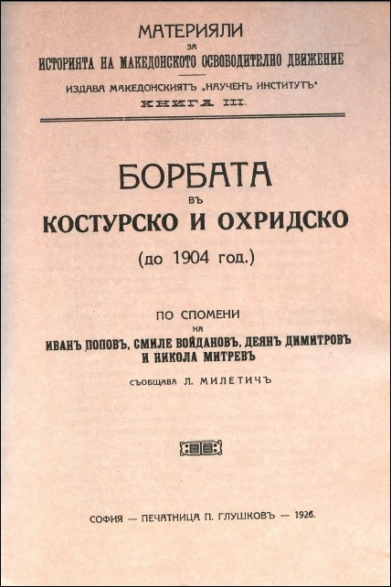 Slaveyko Arsov's Memoirs